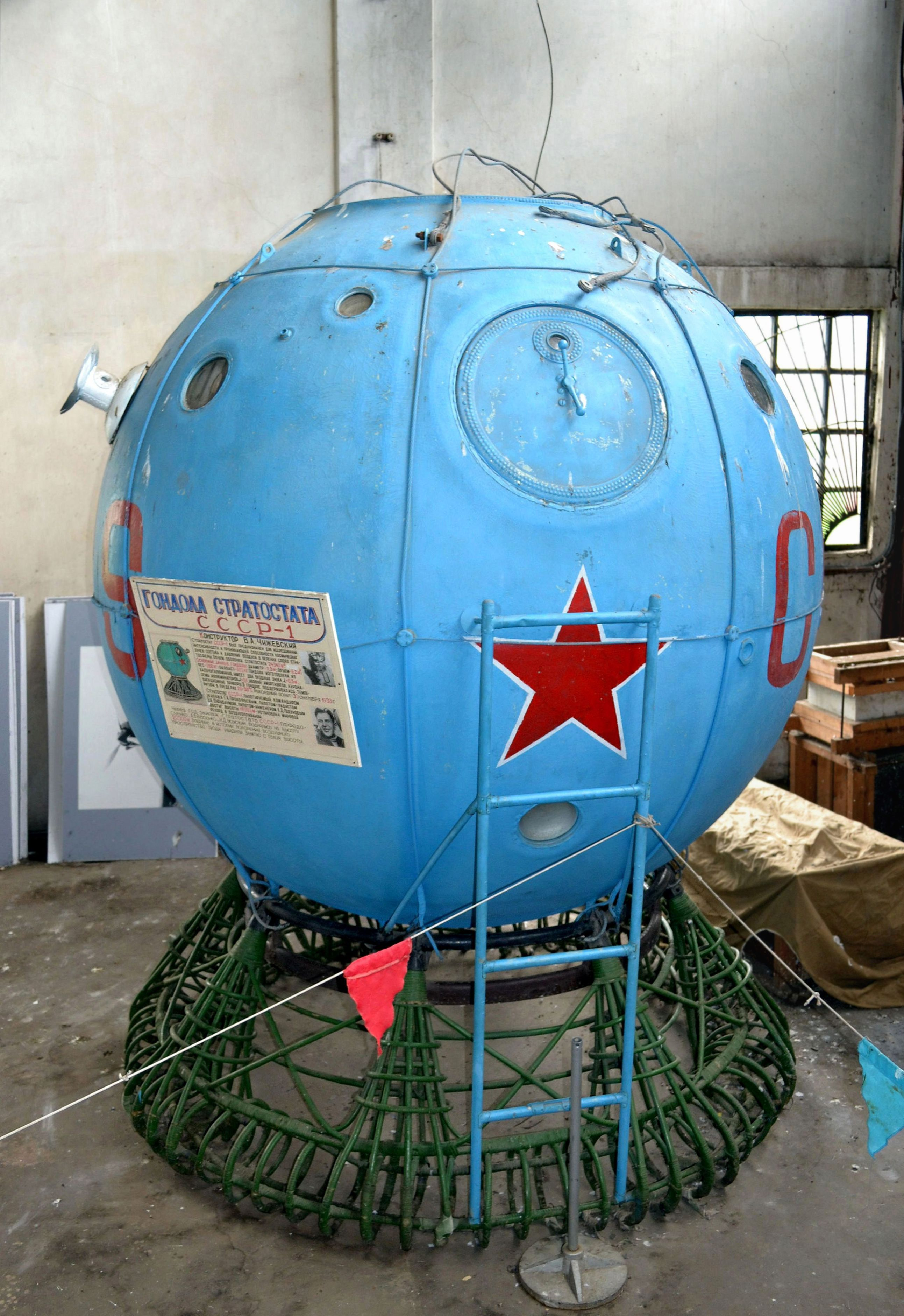 The gondola of the Soviet high-altitude balloon USSR-1 at the Central Air Force Museum in Monino, Russia.